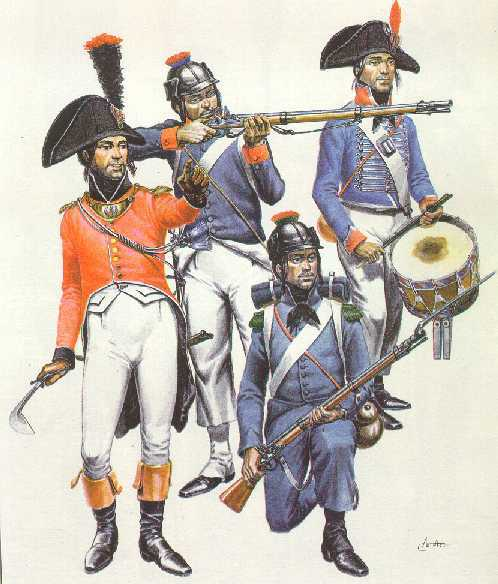 French Soldiers from the 1798-1801 Egyptian Campaign. (L to R clockwise) Line Infantry officer, Line Infantryman, Line Drummer, Light Infantryman.